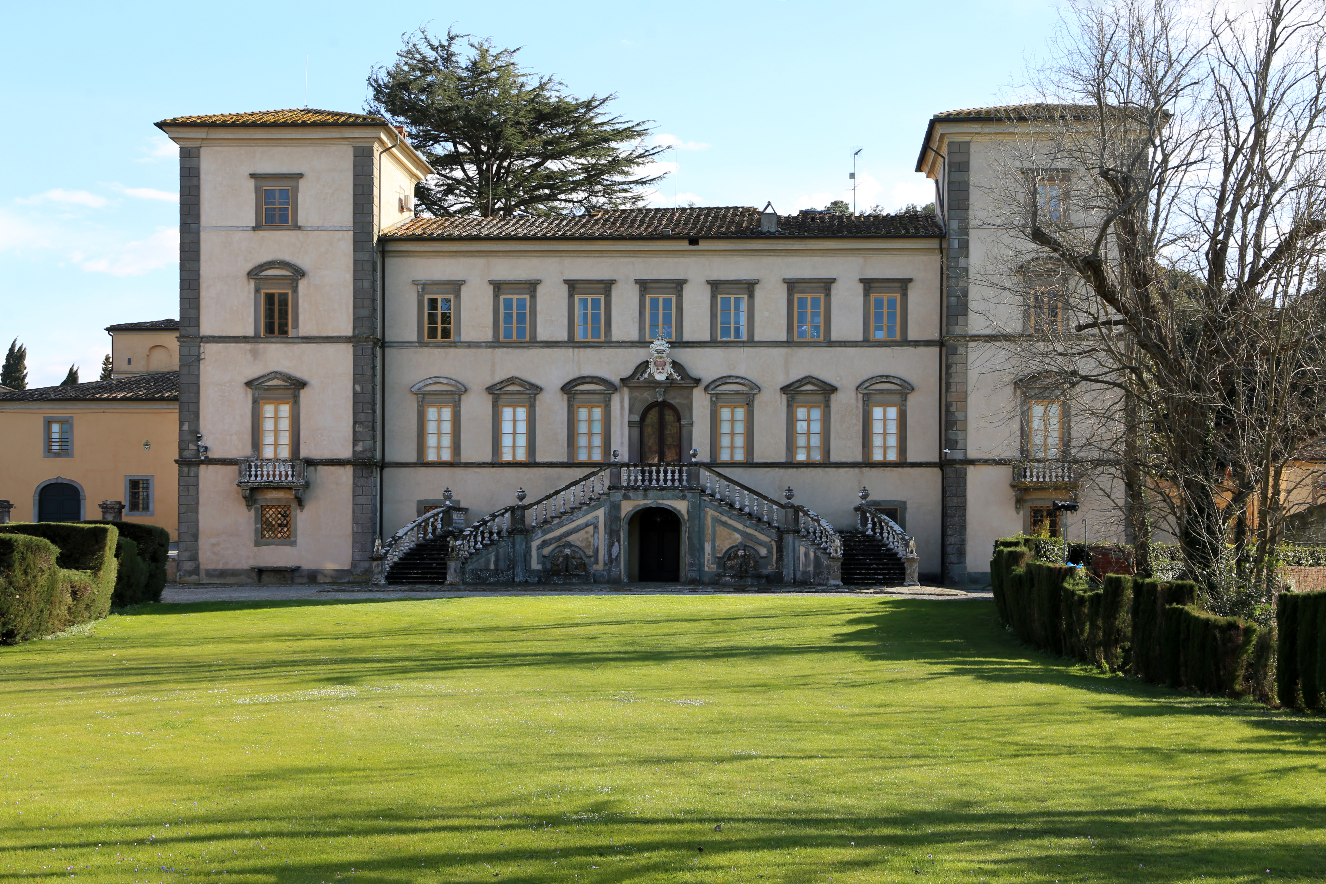 Villa del Carretta (Belvedere, Crespina)